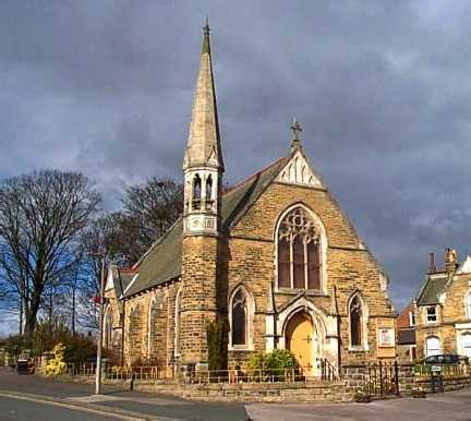 Barwick in Elmet Methodist Church